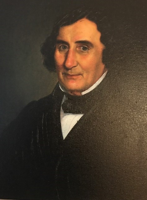 Johan Jacob Jung